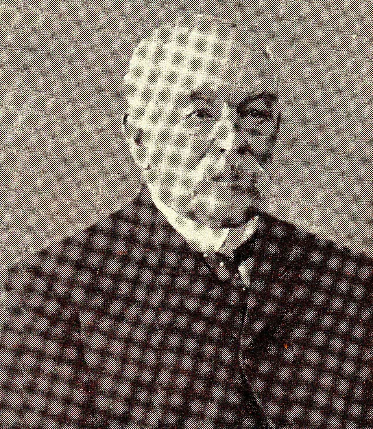 W. Six